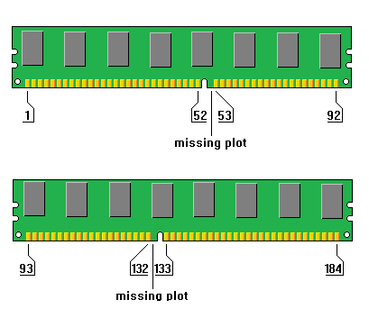 DDR layout sketch